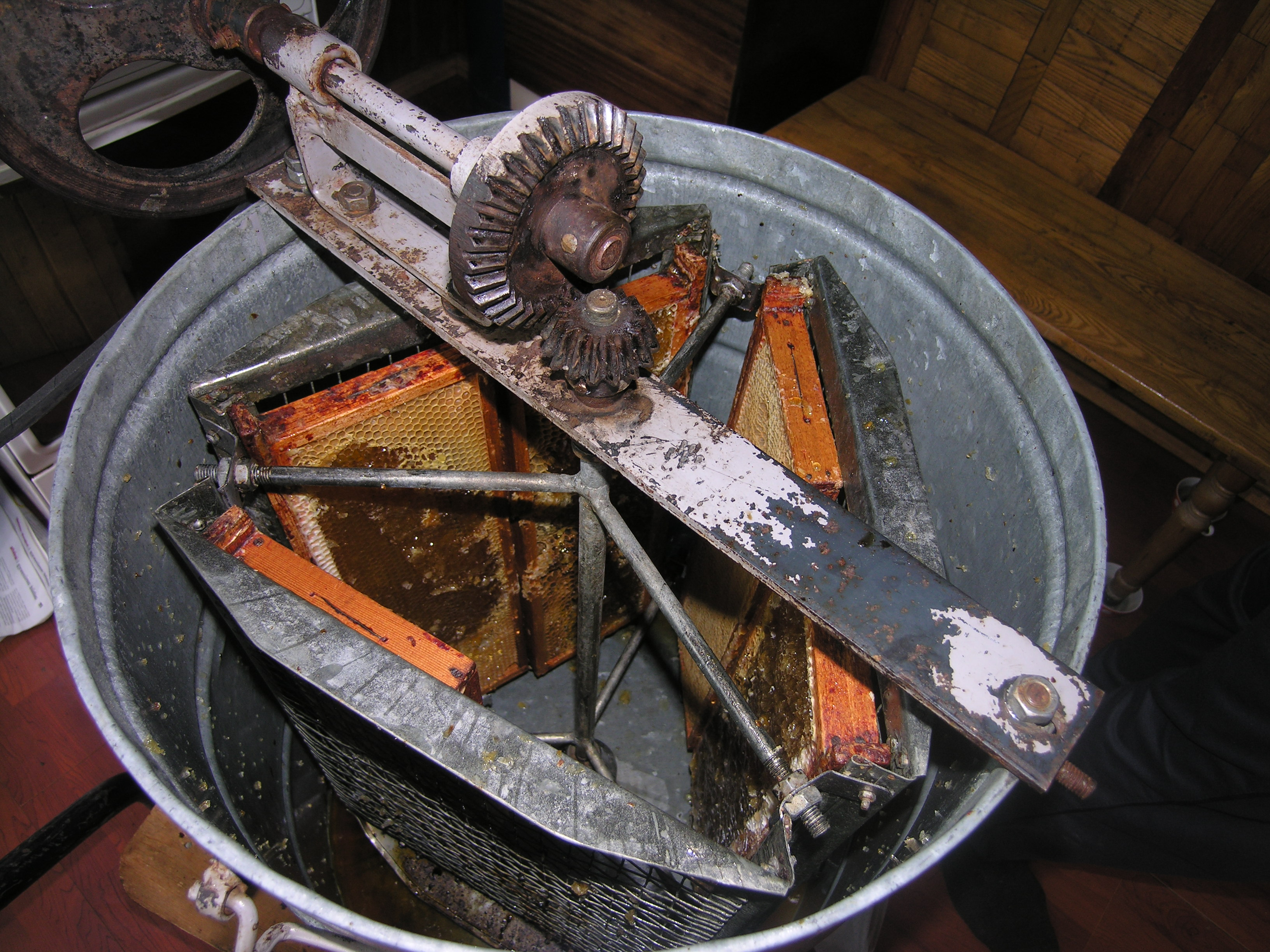 Honey extractor, tangential.